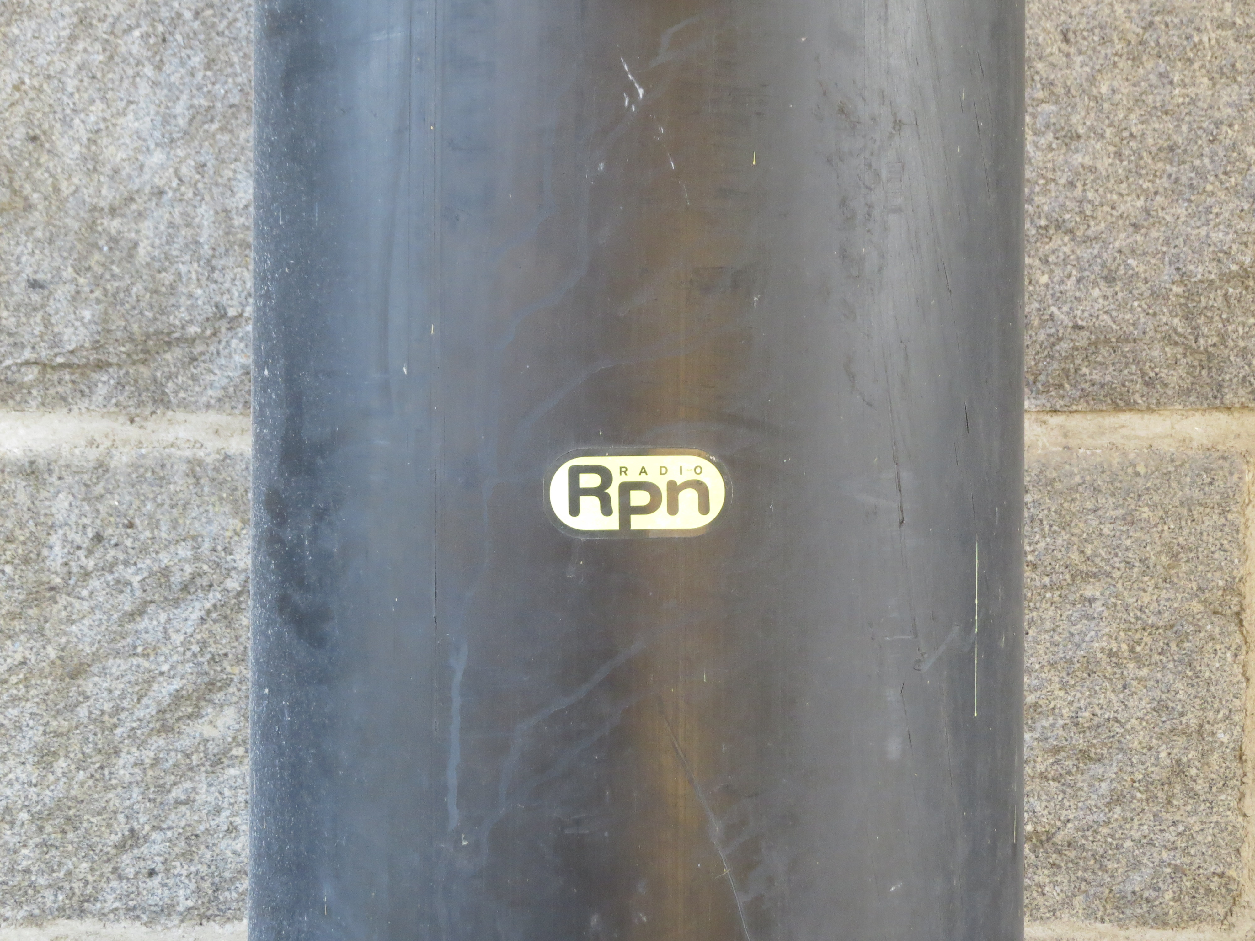 Drainpipe with sticker of former radio station RPN, now Krone Hit at Donaubrücke in Krems an der Donau, Austria